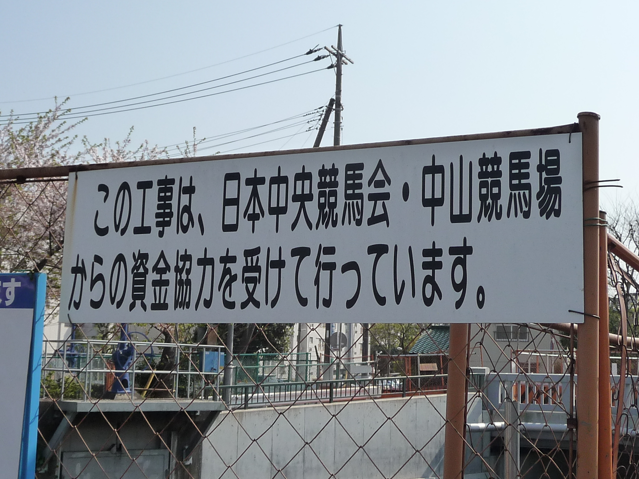 Road under construction fund is cooperatively supported by JRA